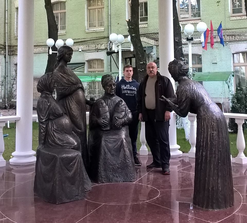 Памятник Агриппине Абрикосовой